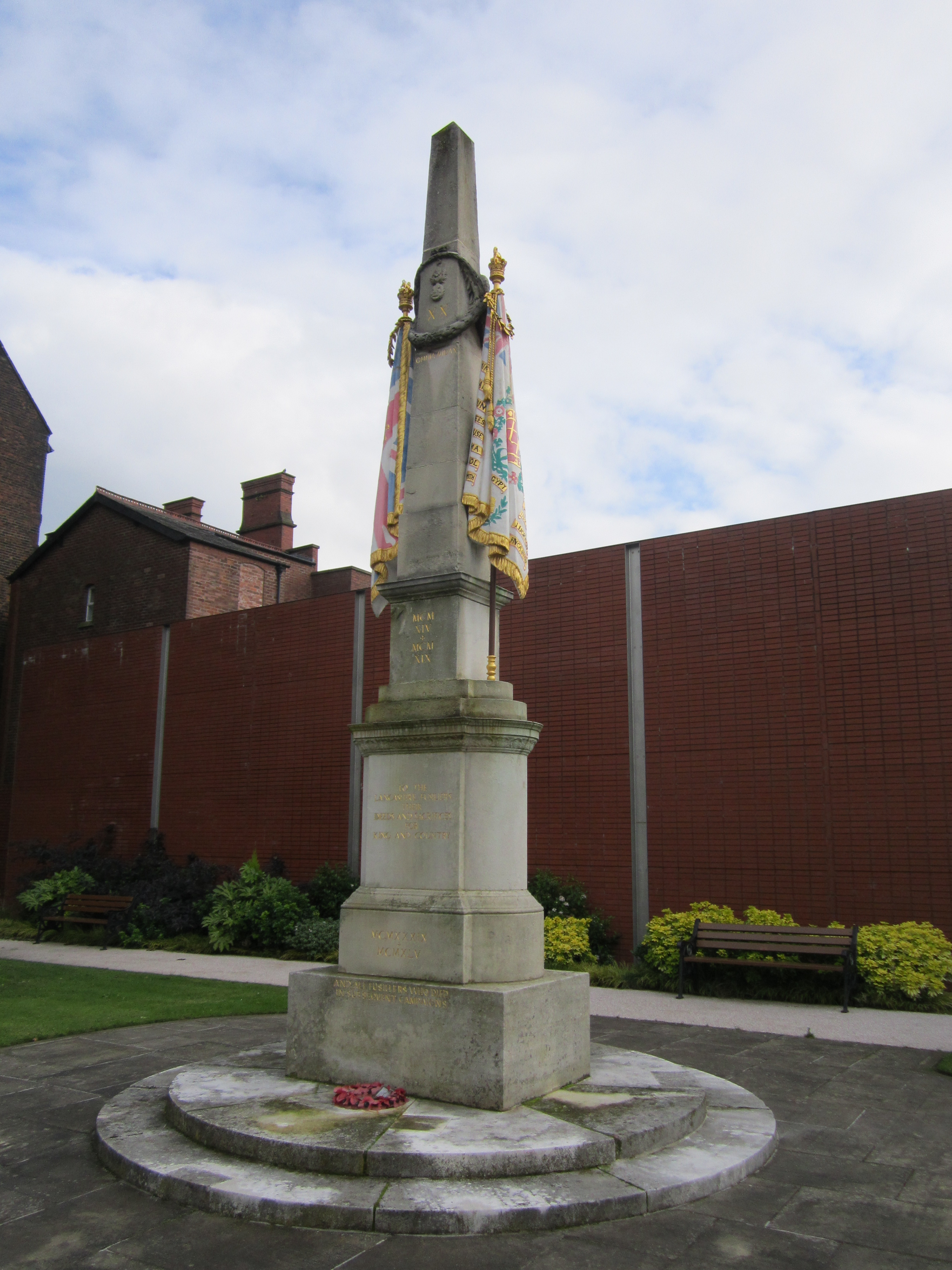 Photo taken at Bury, Greater Manchester, England.